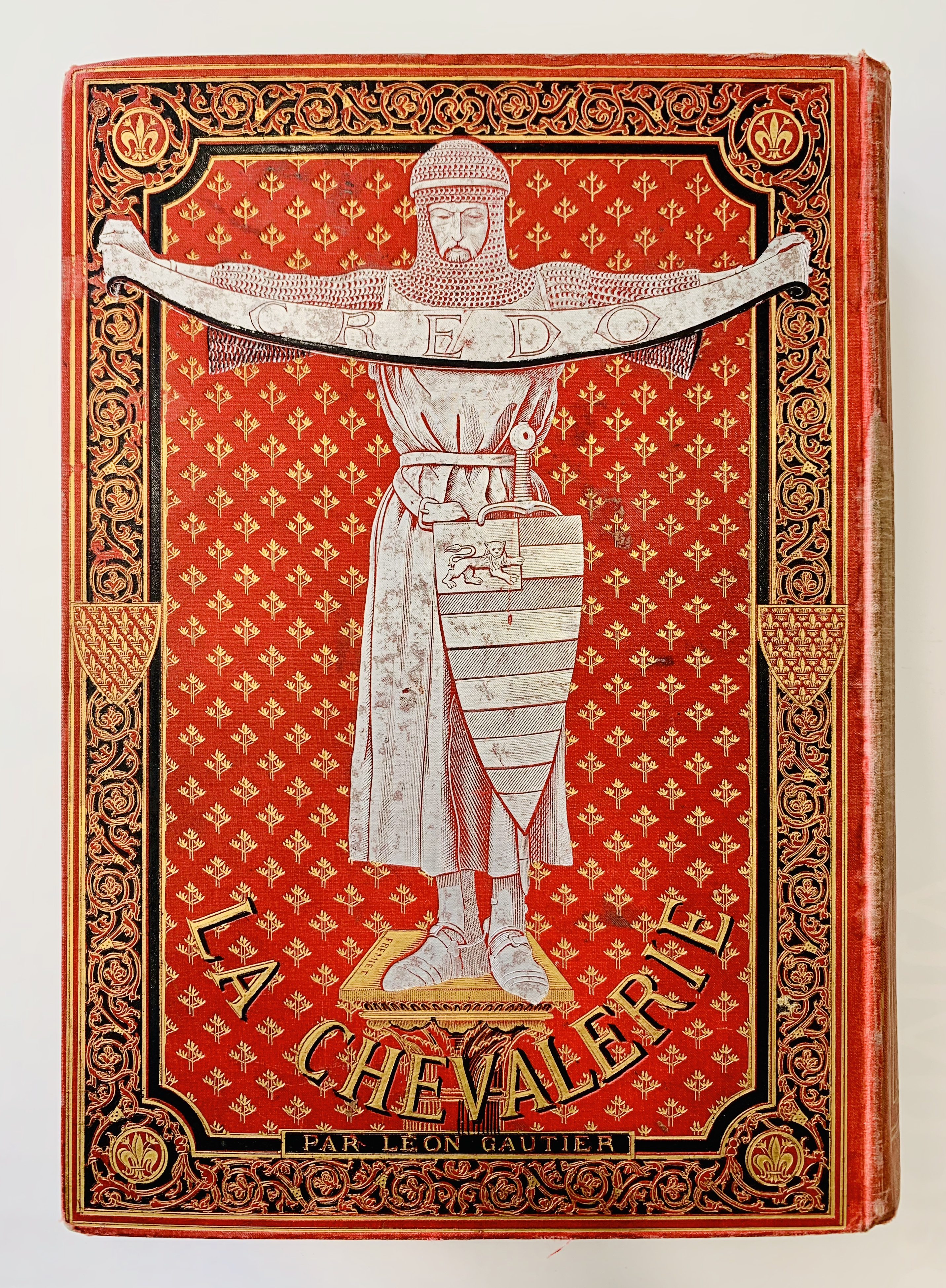 Book Cover for Leon Gautier's "La Chevalerie (The Chivalry)" (1884)